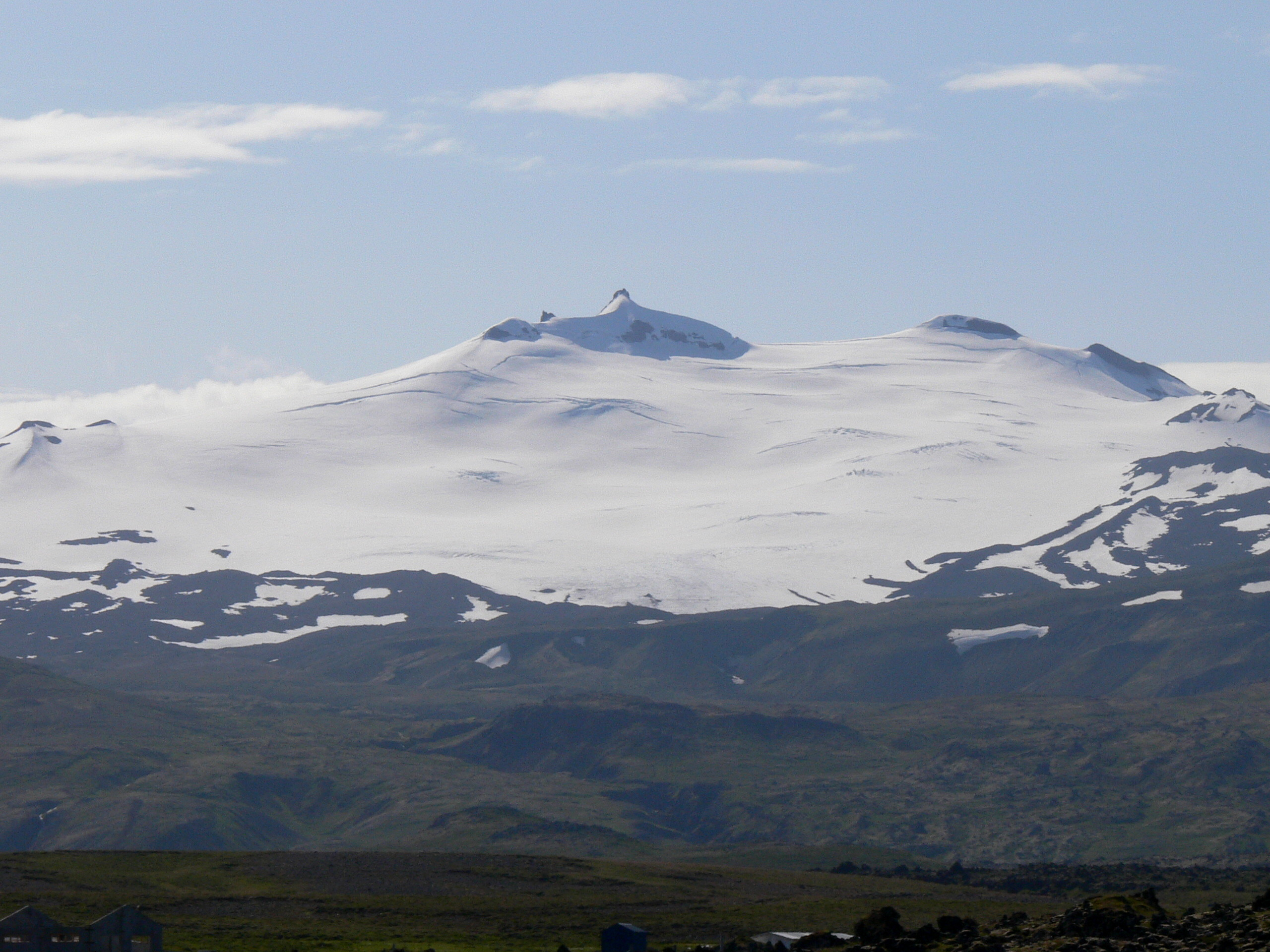 Snaefellsjökull seen from Hellisandur.